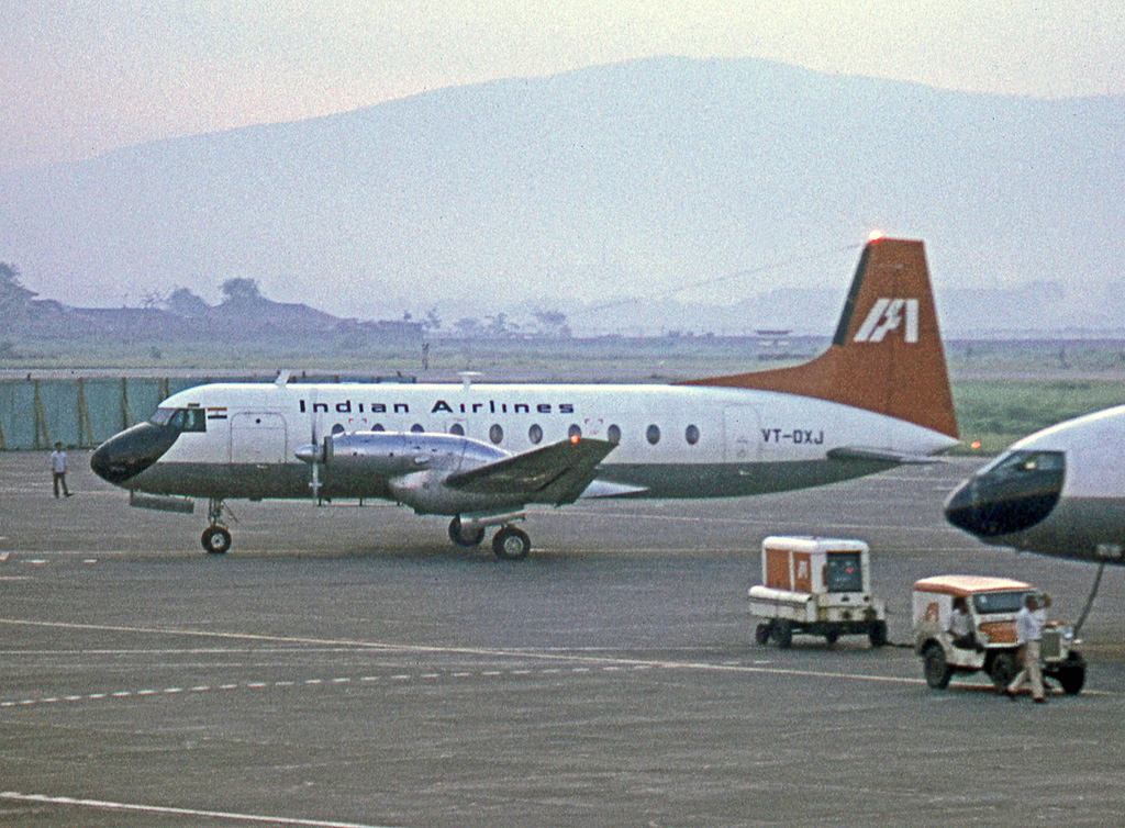 Hawker Siddeley 748 VT-DXJ, built by Hindustan for Indian Airlines, at Bombay Airport in 1974.